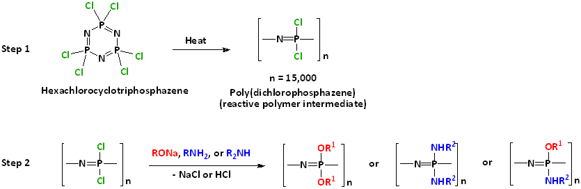 Synthetic scheme showing the general synthesis of polyphosphazenes. "R" indicates any organic group. Author: Harry R. Allcock